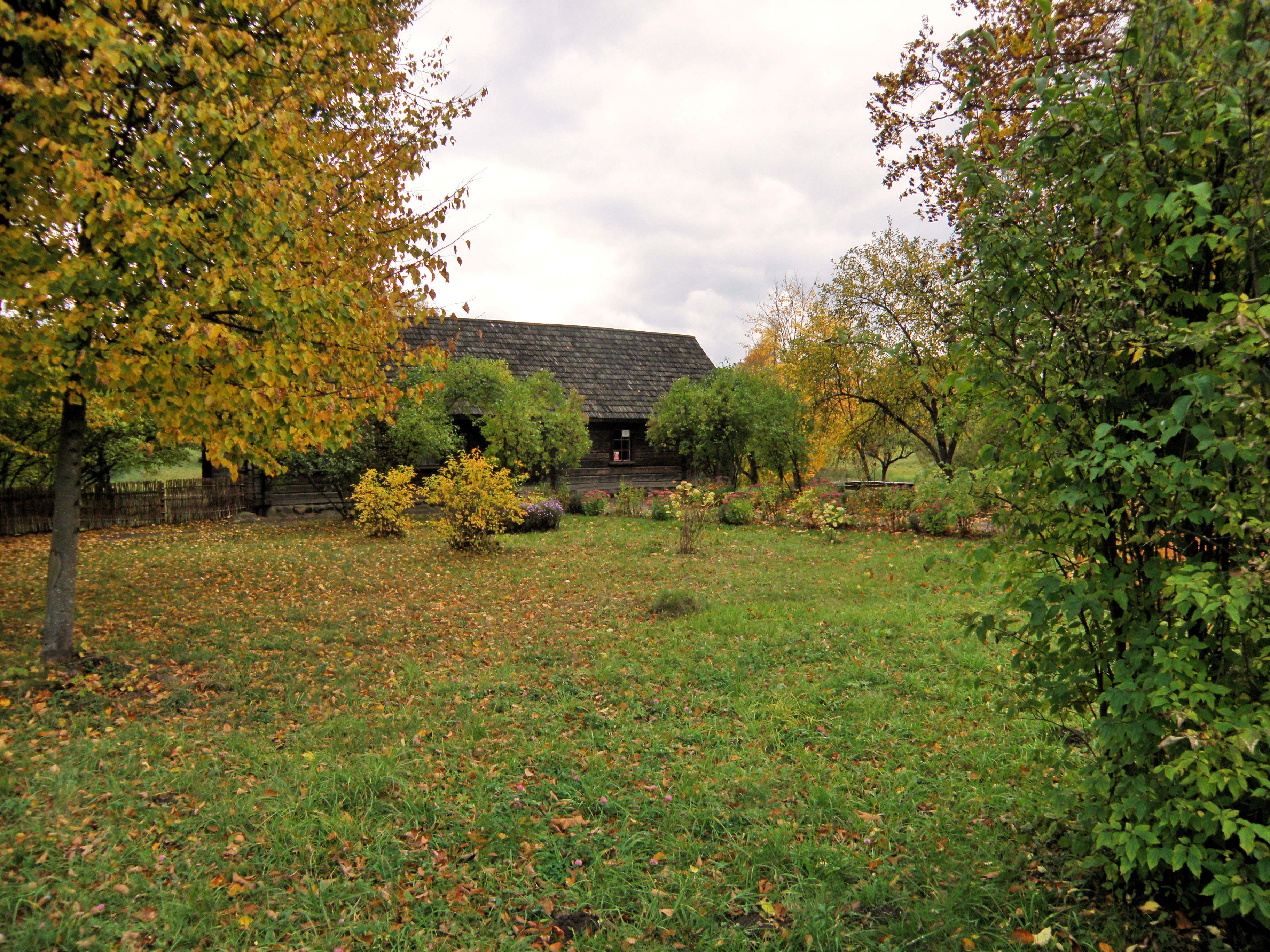 Yanka Kupala's Museum in Vyazynka, Belarus